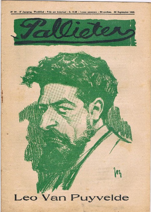 Leo Van Puyvelde. Front page of the Flemish magazine Pallieter (1922-1928). All front pages were designed and illustrated by Jos De Swerts (1890-1939).